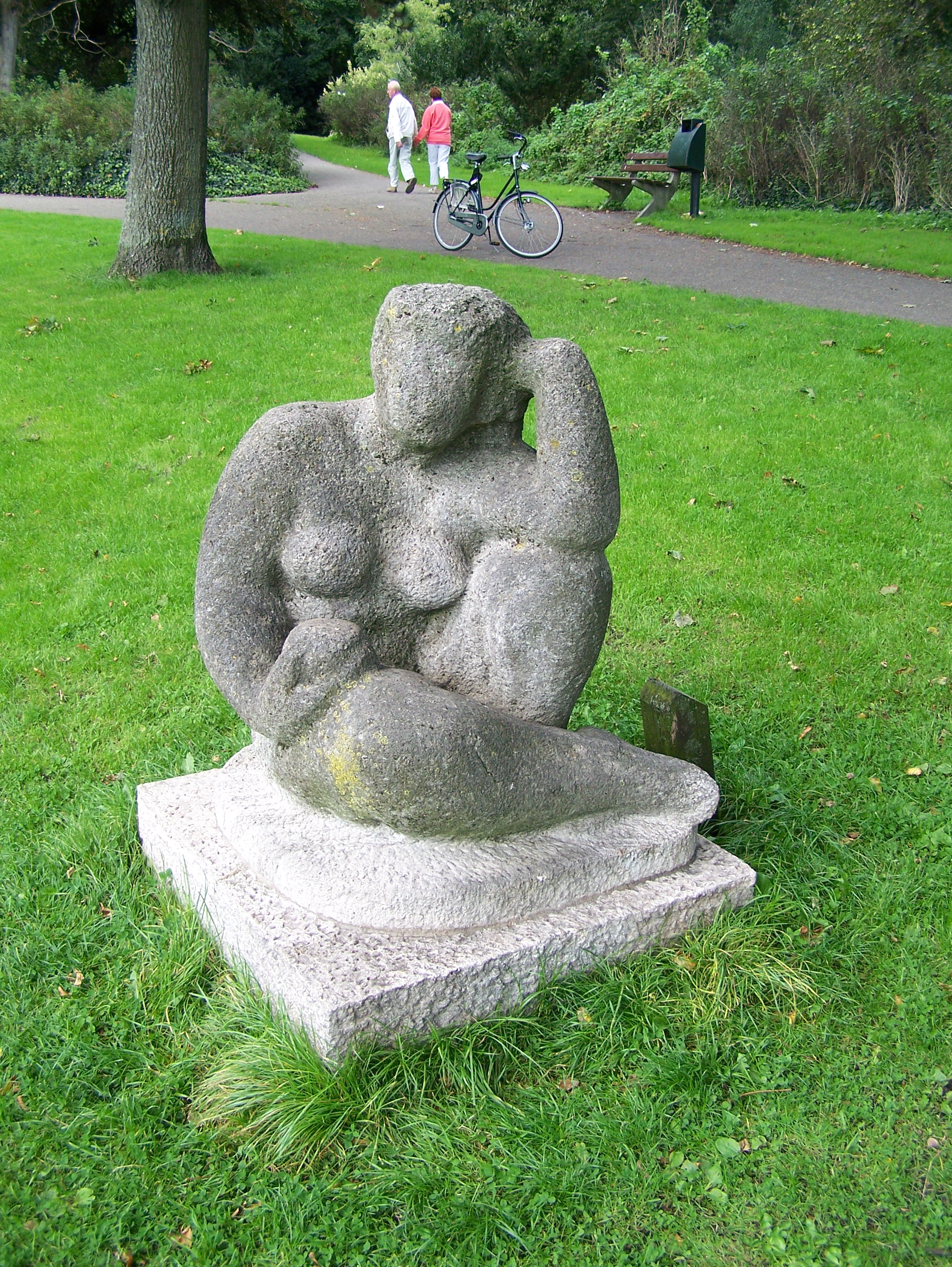 Sculpture "Zittende vrouw" (sittin woman) by Charlotte van Pallandt. Placed at the Clarissenbolwerk in Alkmaar.